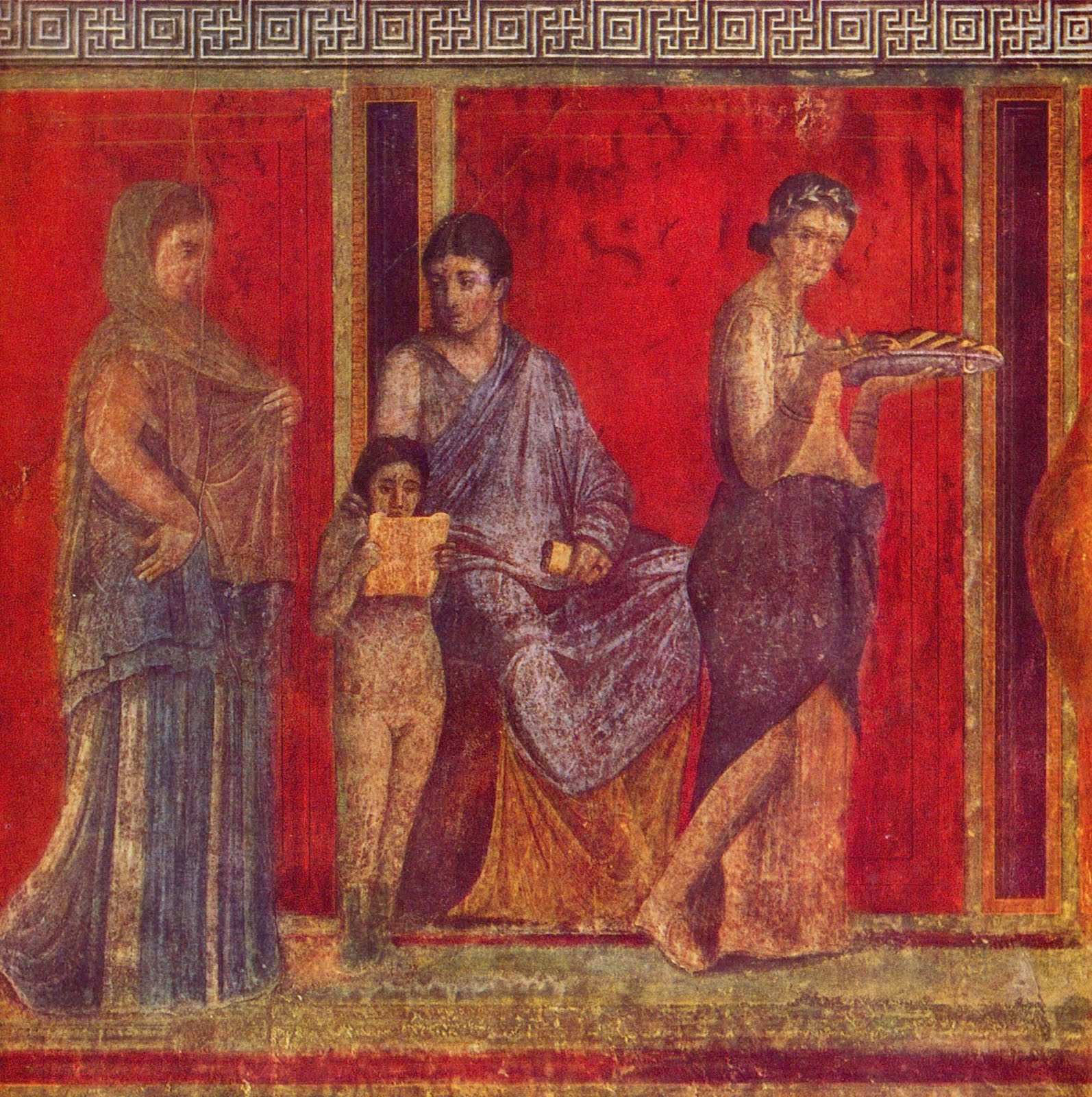 Painting from Pompeii in Italy.